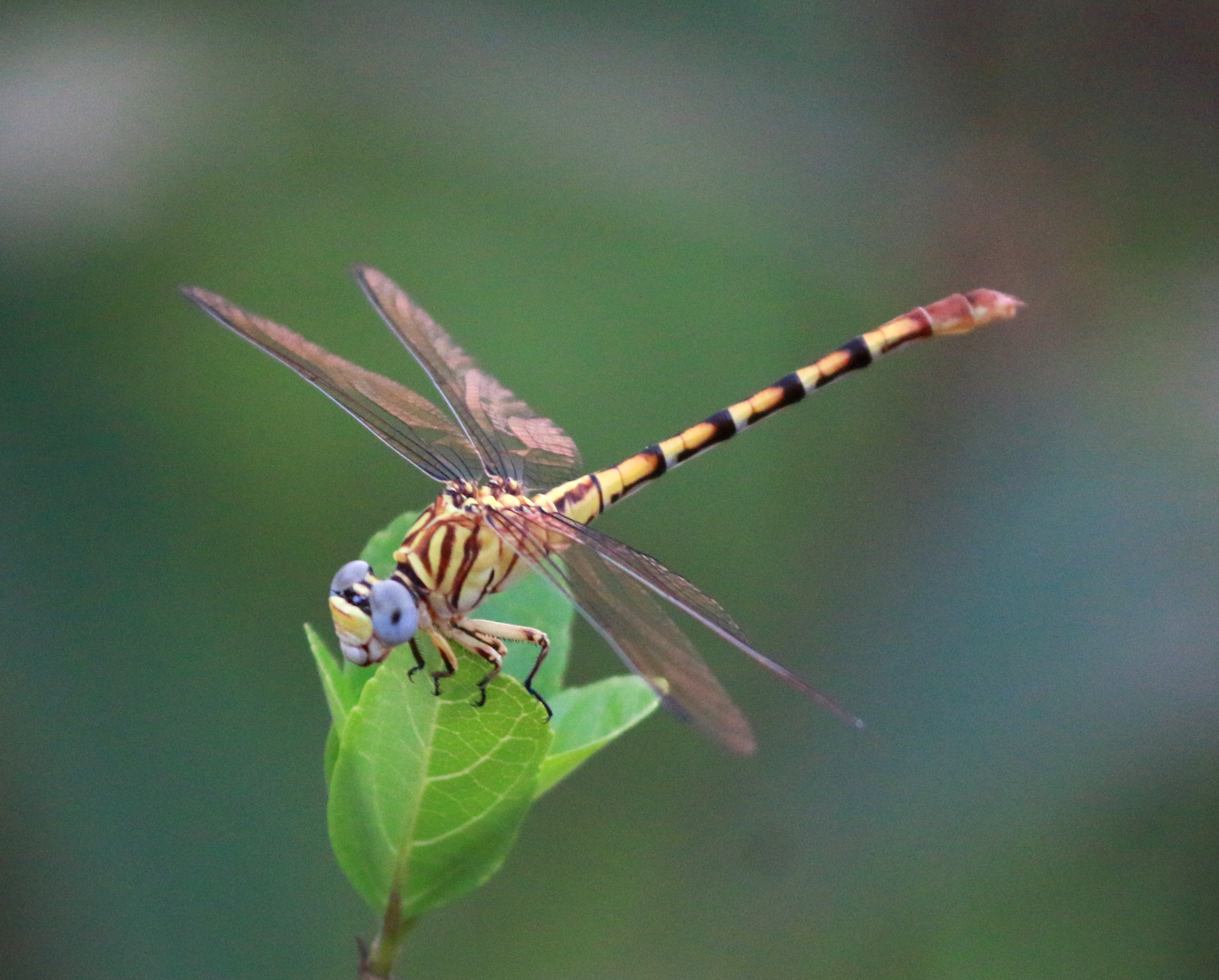 Female Lined hooktail, Common hooktail,Paragomphus lineatus